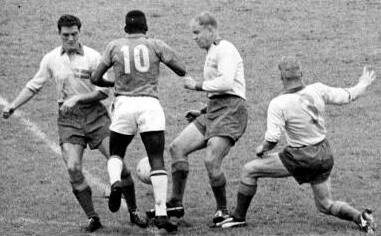 Pelé dribbling past Swedish footballers Bengt "Julle" Gustavsson, Sigge Parling and Sven Axbom.